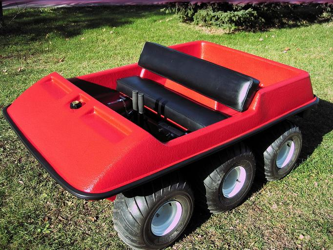 red amphicat